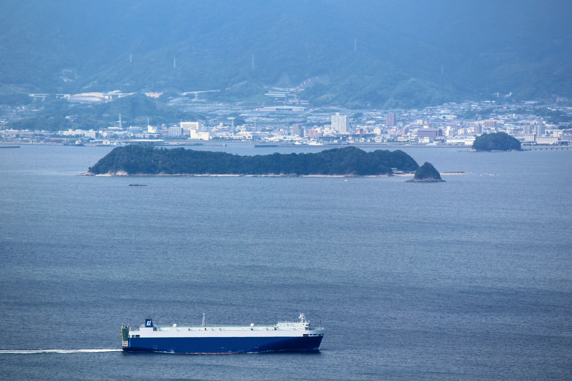 Mikawa Ōshima from Mount Zao